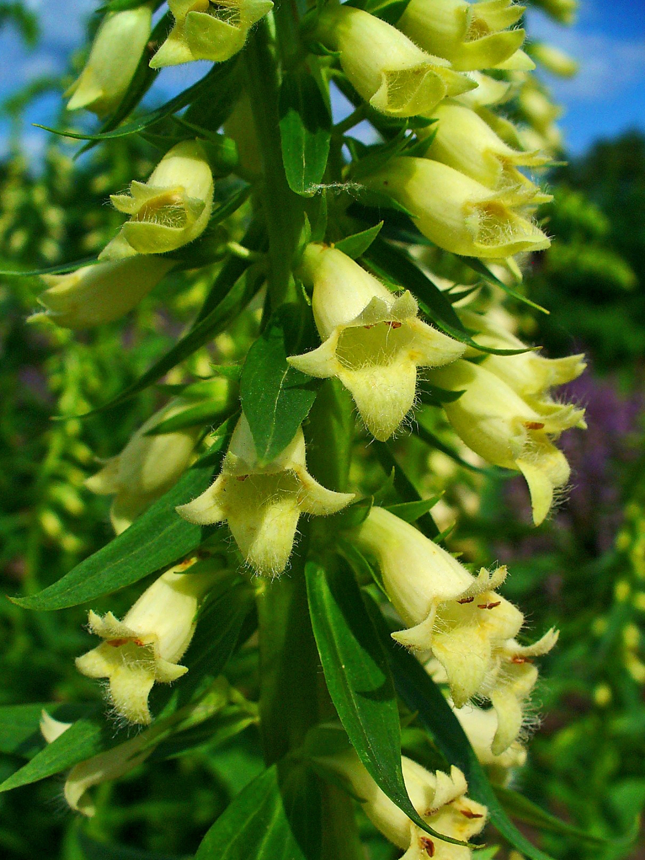 Digitalis lutea, Plantaginaceae, Yellow Foxglove, inflorescence. The leaves are used in homeopathy as remedy: Digitalis lutea (Dig-lut.)